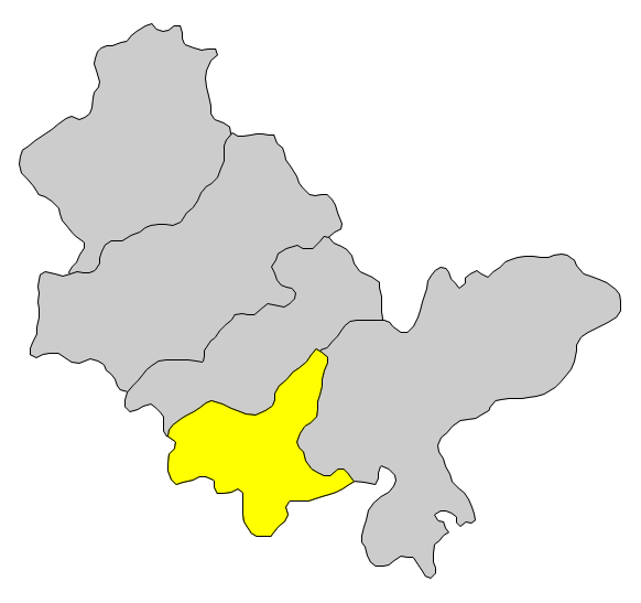 Location of Huiyang District, Huizhou